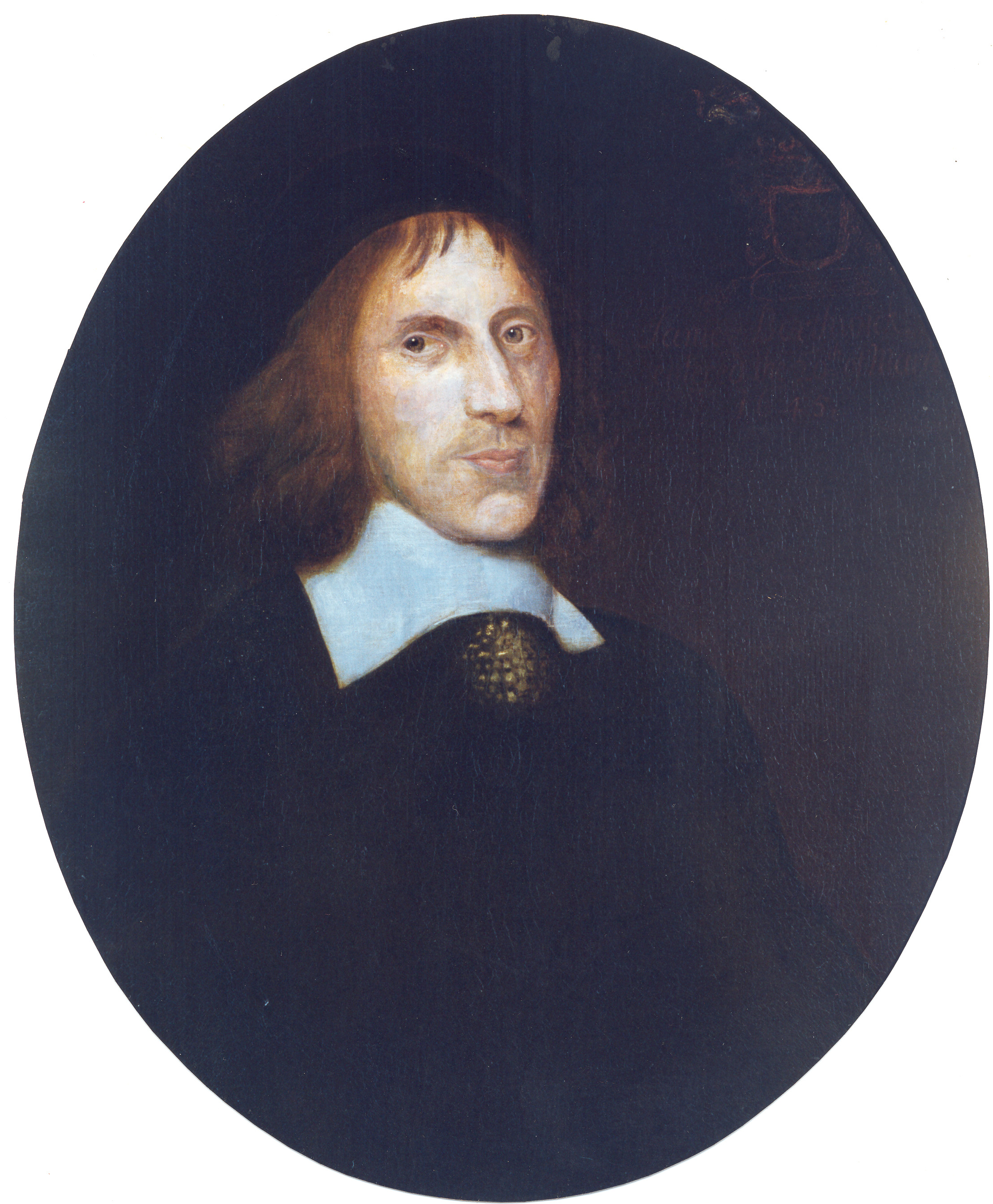 Portrait of James Borthwick held in the collection of The Royal College of Surgeons of Edinburgh